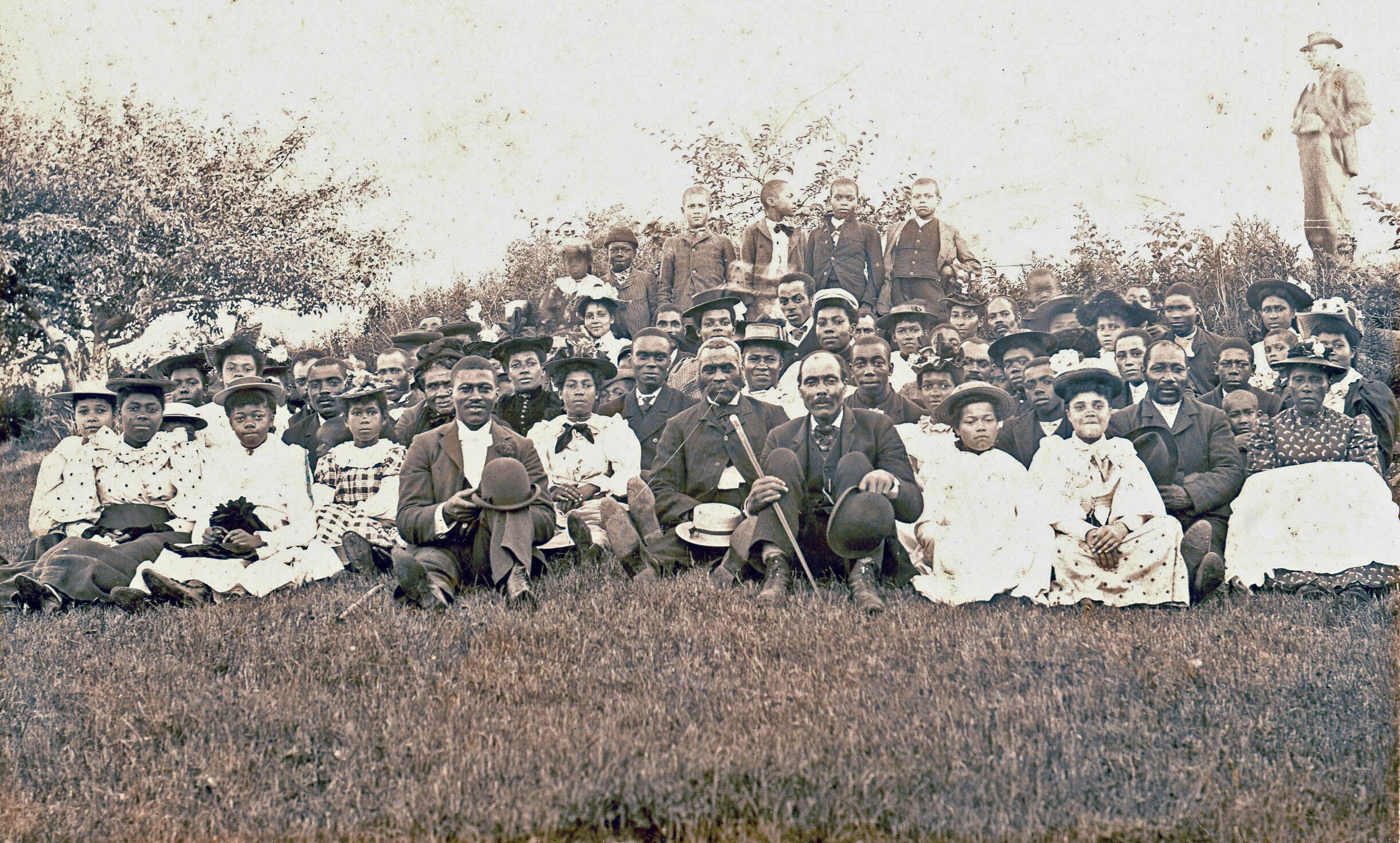 Photograph shows the congregation of Weymouth Falls African Baptist church. Their rather formal dress is typical of the church picnics of their day. Black settlement in the Weymouth area dates back to the 1780s. The Weymouth Falls African Baptist Church was one of seven churches which established the African United Baptist Association of Nova Scotia in 1854.